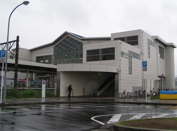 Hamano Station east exit, Chūō-ku, Chiba, Japan